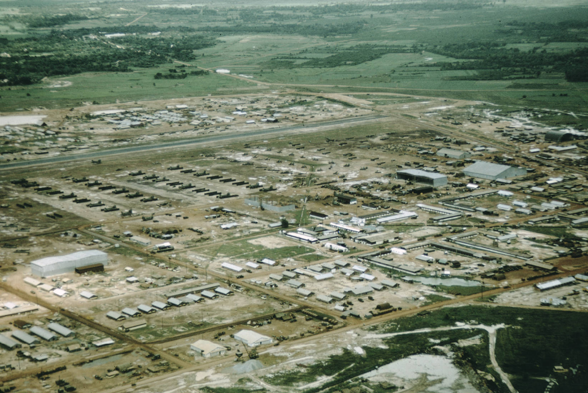 Phu Loi showing some of the aircraft hangars being constructed there by the 554th Engineer Battalion